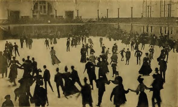 Interior view of the St. Nicholas Rink, as published in the 1901 Ice Hockey and Ice Polo Guide from Spalding